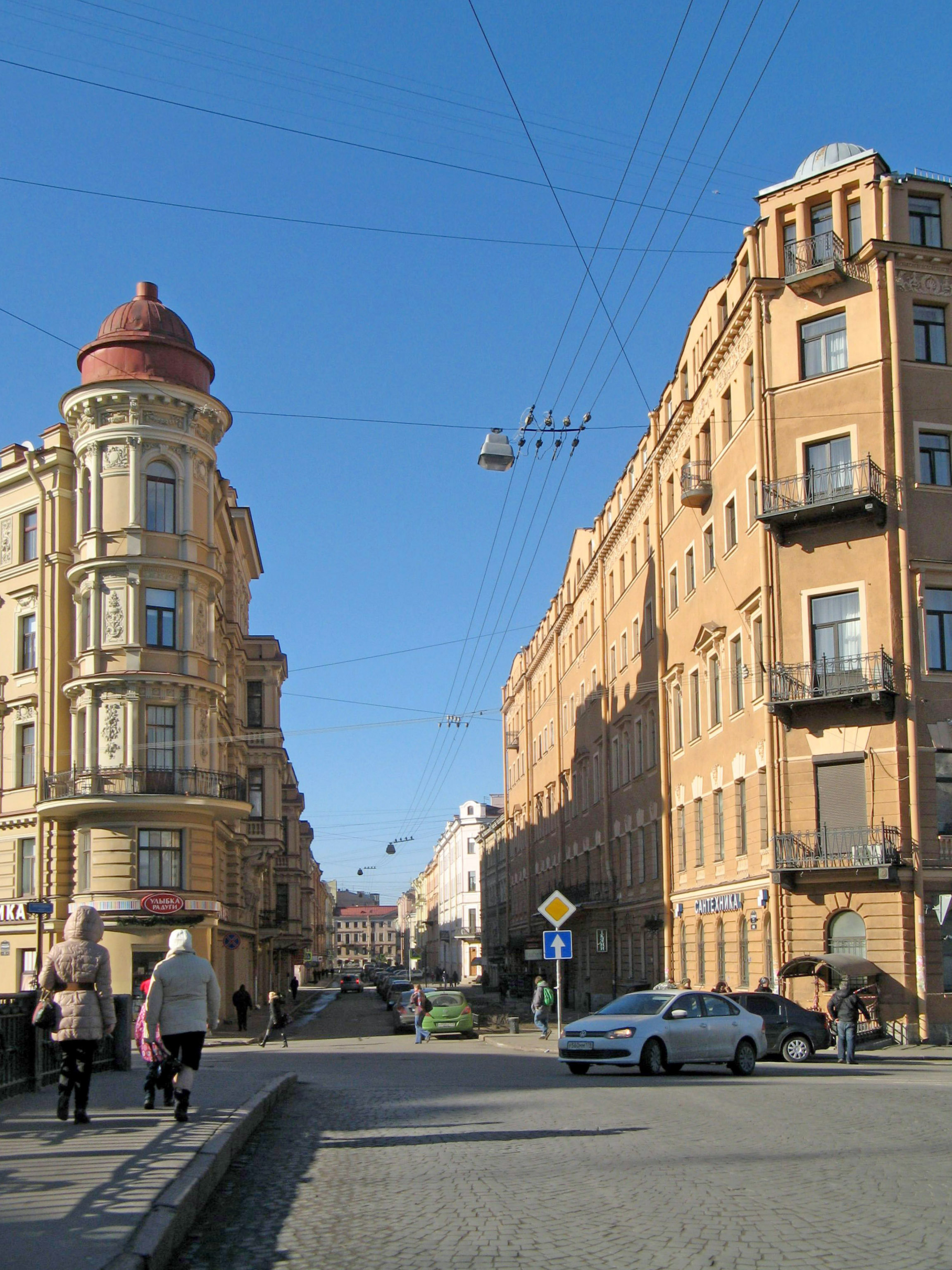 Stolyarny Lane, Saint Petersburg